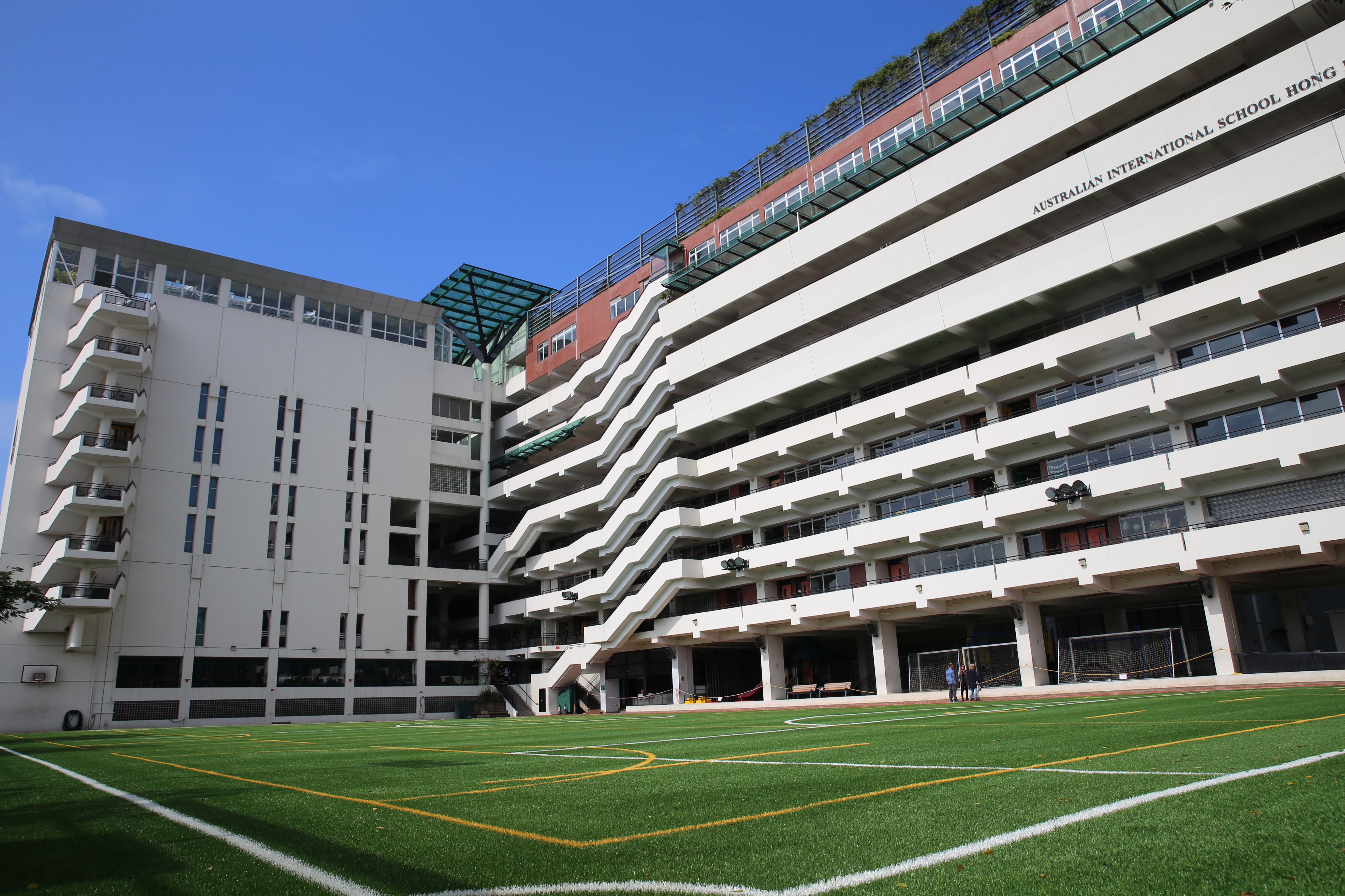 Image of AISHK